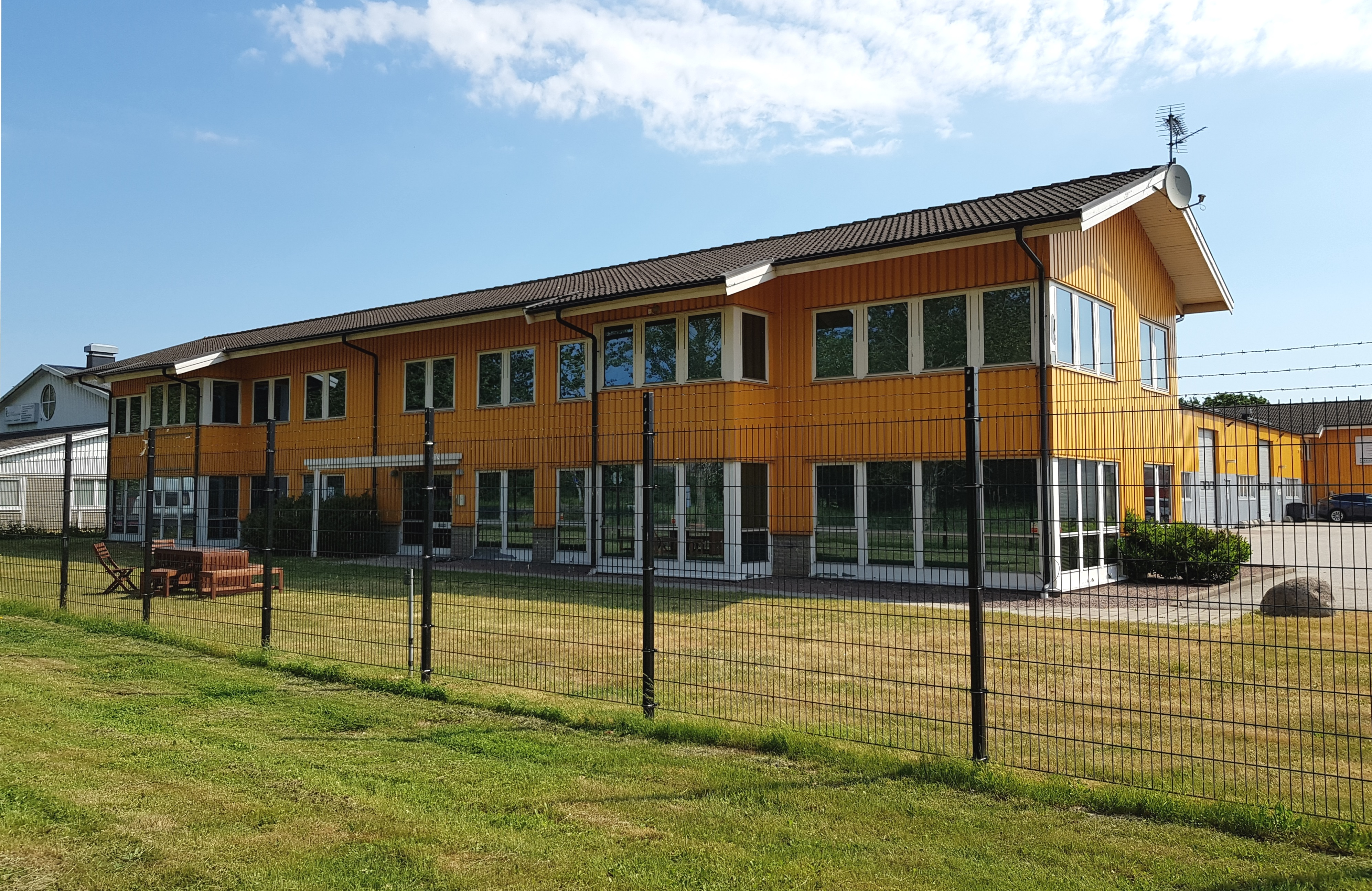 Rattgatan 7 in Landskrona, home of Ninjas in Pyjamas Gaming AB.